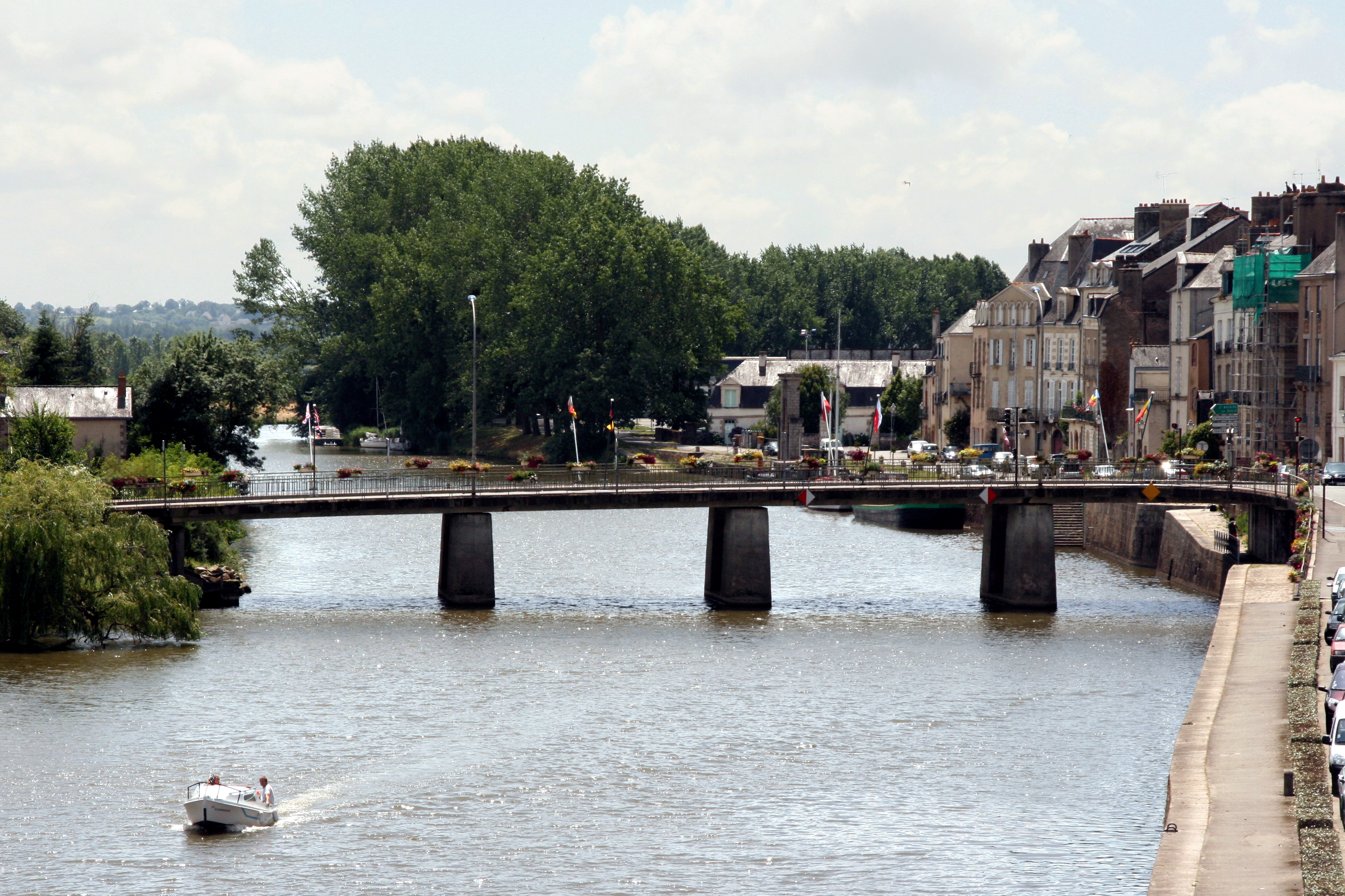 Saint-Nicolas bridge upon Vilaine River, between Redon and Saint-Nicolas-de-Redon, Brittany, France.